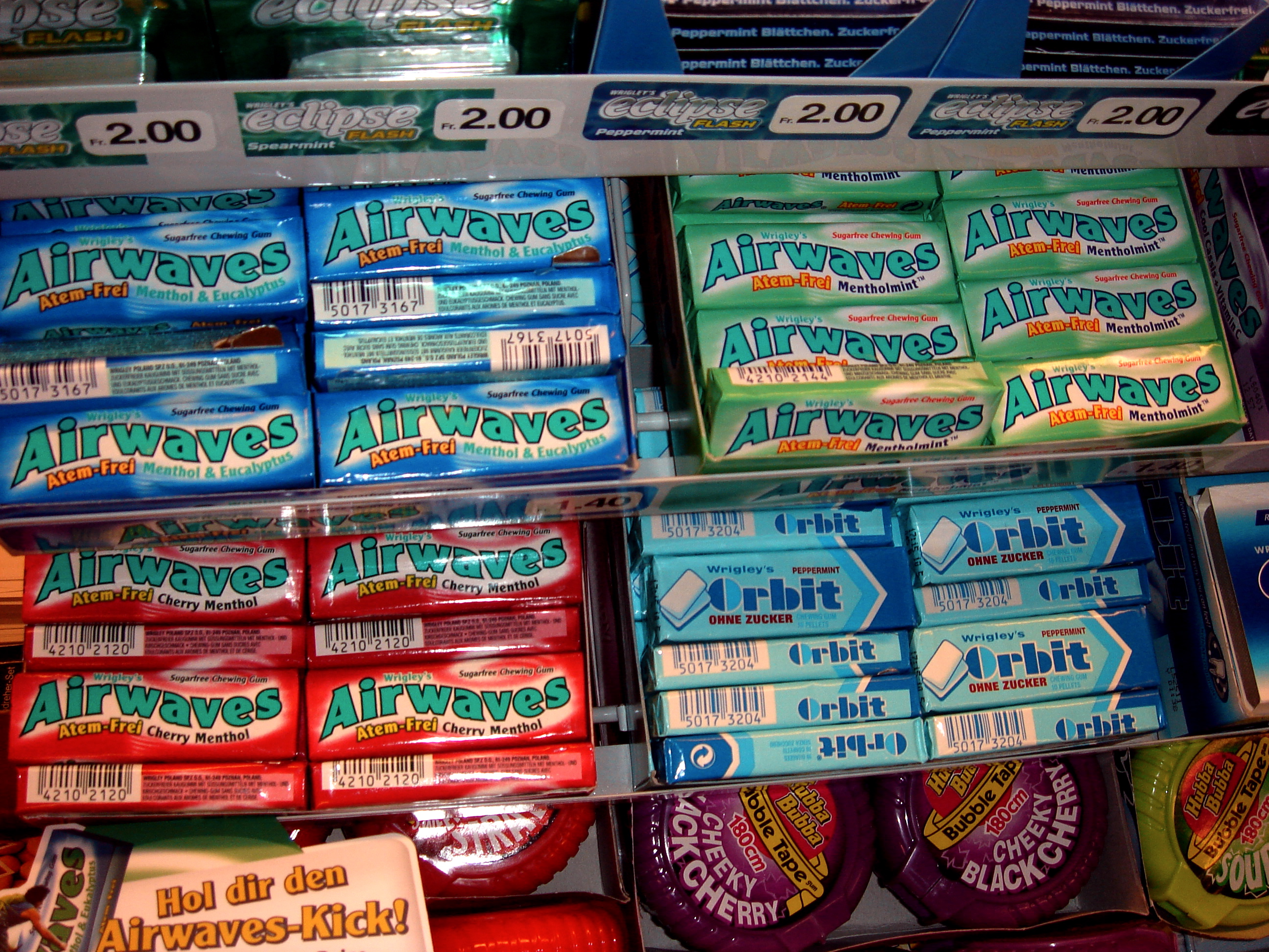 Dad, u have your own brand of gum??? NOTE: The logo is teal as well!!!! Just remember HOL DIR DEN AIRWAVES-KICK!!!!